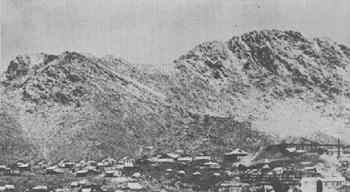 Town of Weaver, Arizona, with Rich Hill in the background in 1888.